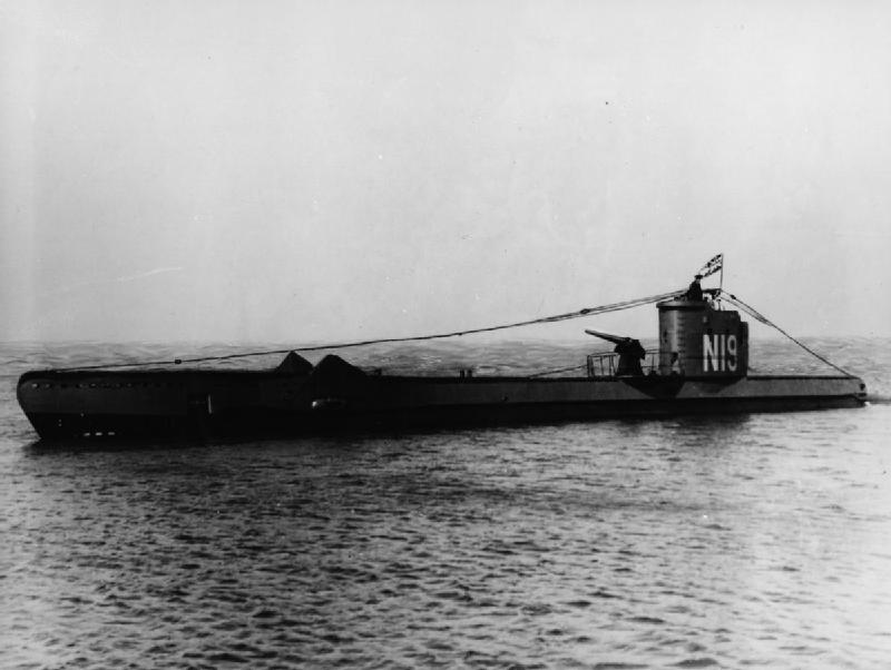 British U class submarine HMSM UTMOST underway.